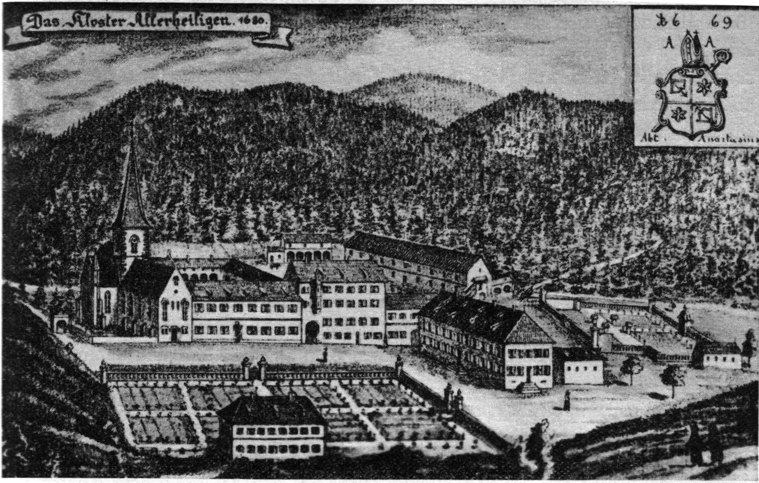 All Saints' Abbey (Baden-Württemberg). Zeichnung, datiert 1680, Autor unbekannt